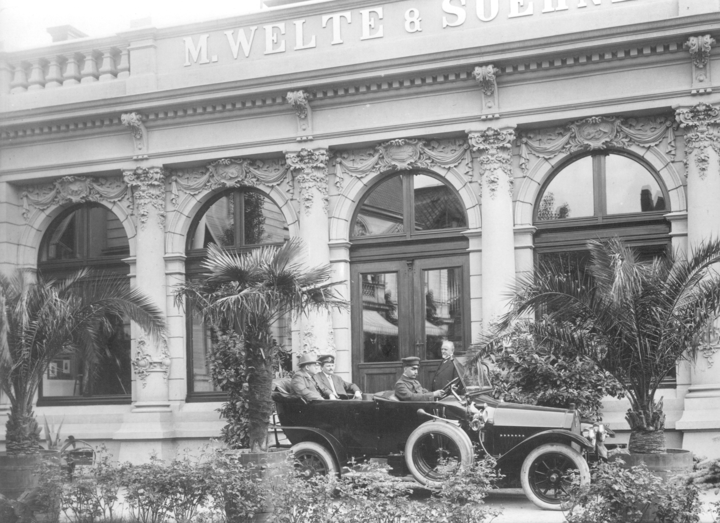 Max Reger in 1913 in front of the building of M. Welte & Söhne in Freiburg